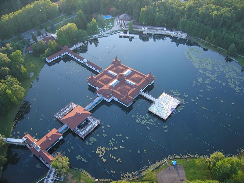 Lake Hévíz from bird's eye view